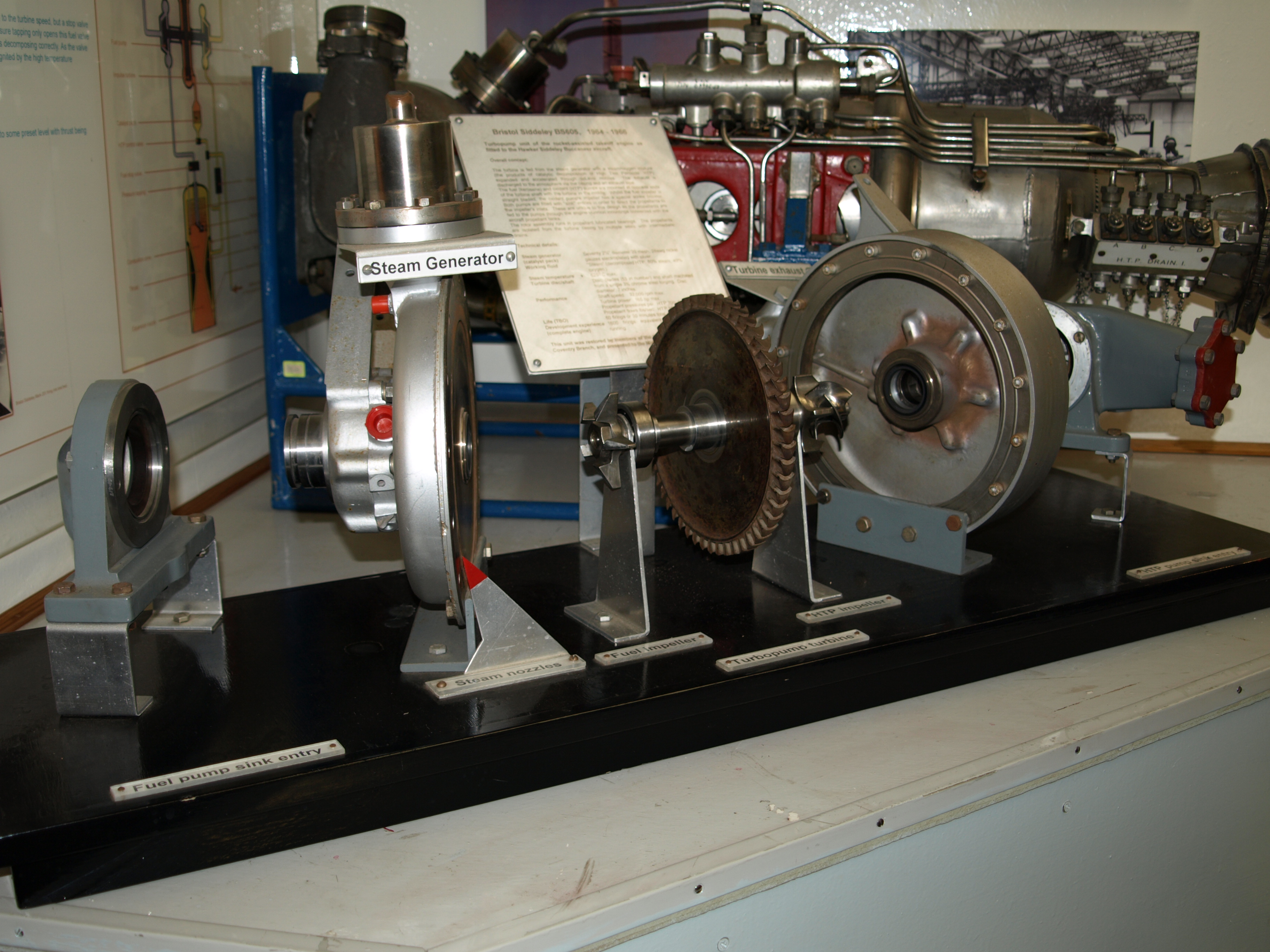 Bristol Siddeley 605 rocket engine on display at the Midland Air Museum, Coventry.